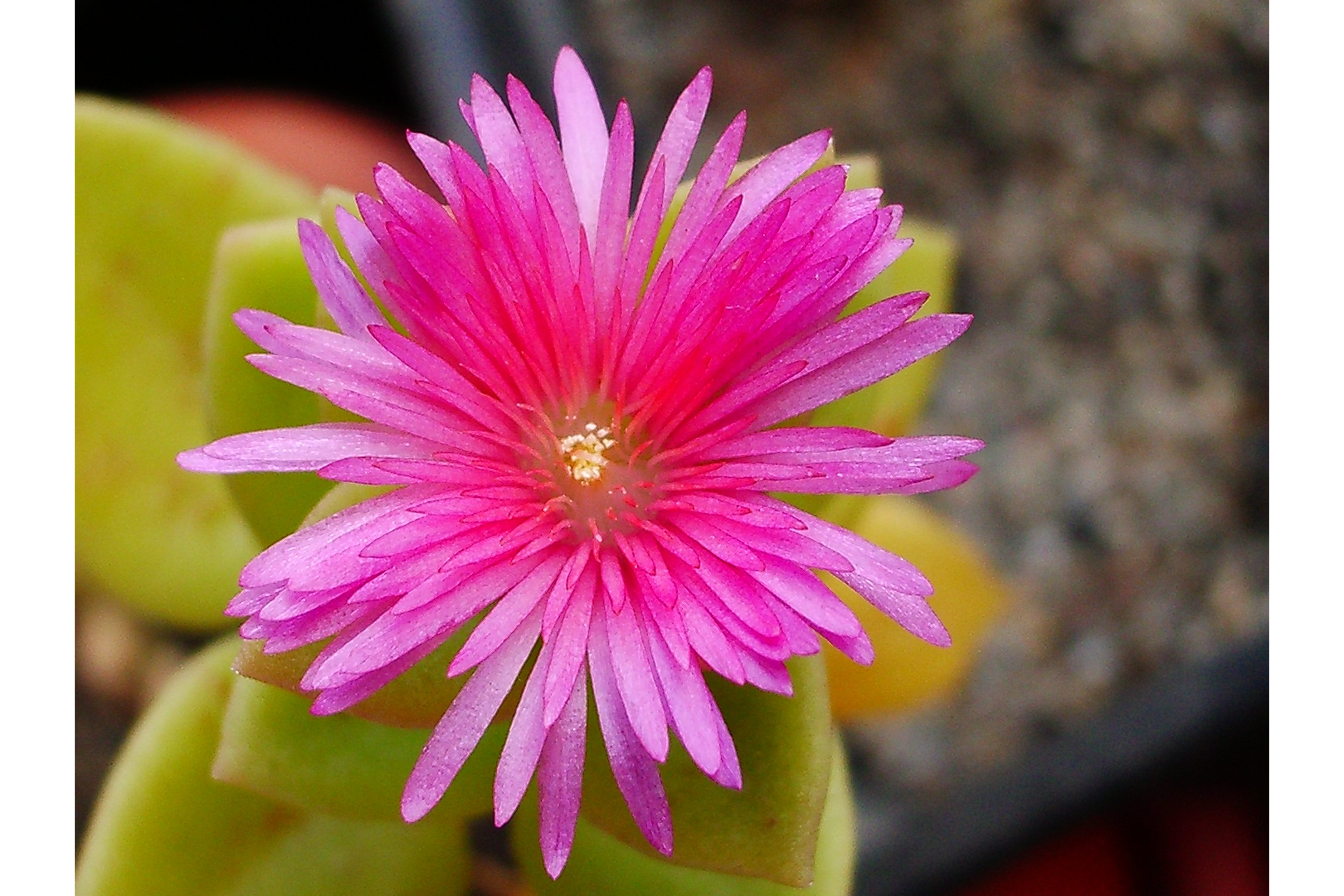 Flower of Aptenia cordifolia (plant collection of Ivan I. Boldyrev, Berdsk, Russia)